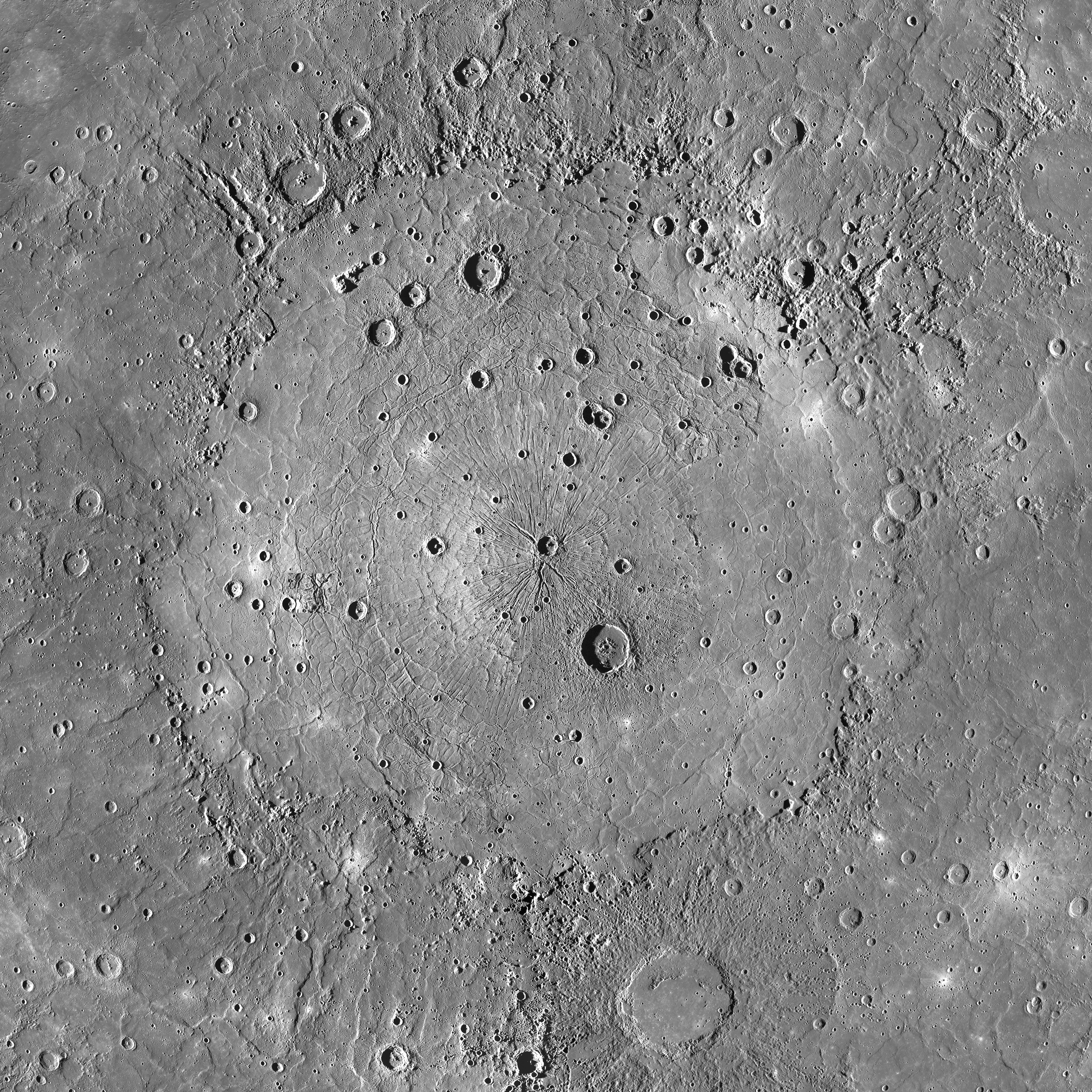 Original caption: This is an MDIS mosaic of the mighty Caloris basin, Mercury's youngest large impact basin. Caloris has been filled by volcanic plains that are distinctive in color from the surrounding terrain. Subsequent craters have excavated low-reflectance material from beneath these volcanic plains, possibly giving clues to the composition of the basin floor. The basin interior has a complex tectonic history. The interior smooth plains have an area of 1.72 million km2 (0.66 million mi2), approximately the area of Alaska! Over 640 Rhode Islands would fit inside of this massive basin!This is a brightness-increased and resolution-decreased version of the original image.